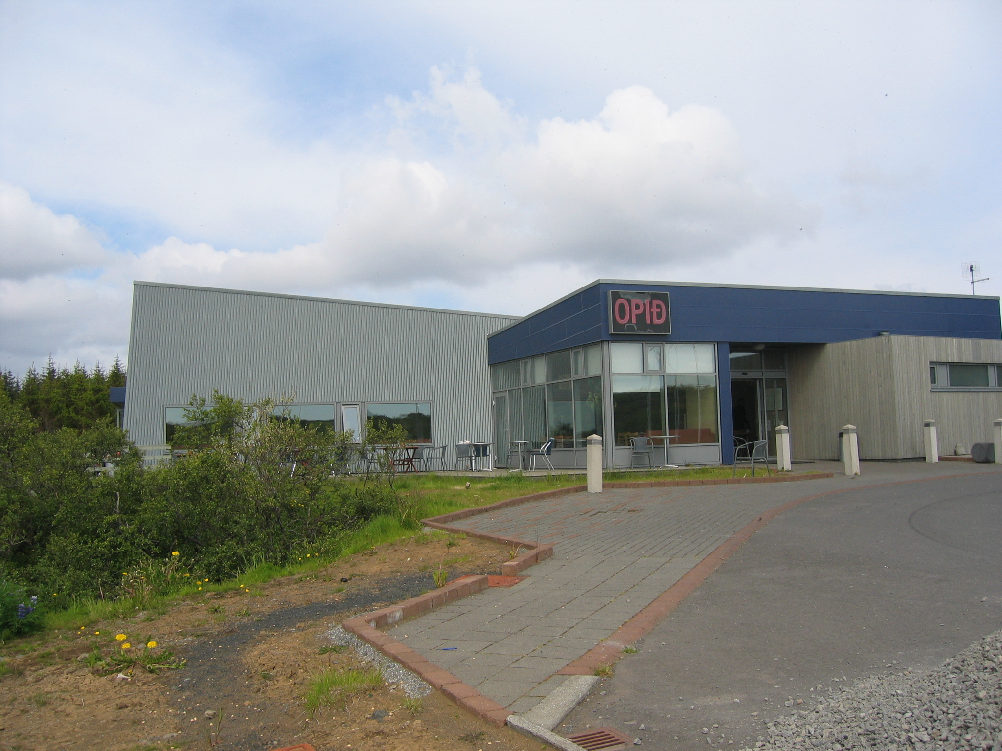 Þrastarlundur restaurant and information center in Iceland located by the river Sogið